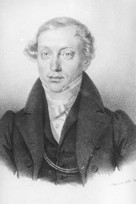 Portrait of Austrian composer Joseph Böhm